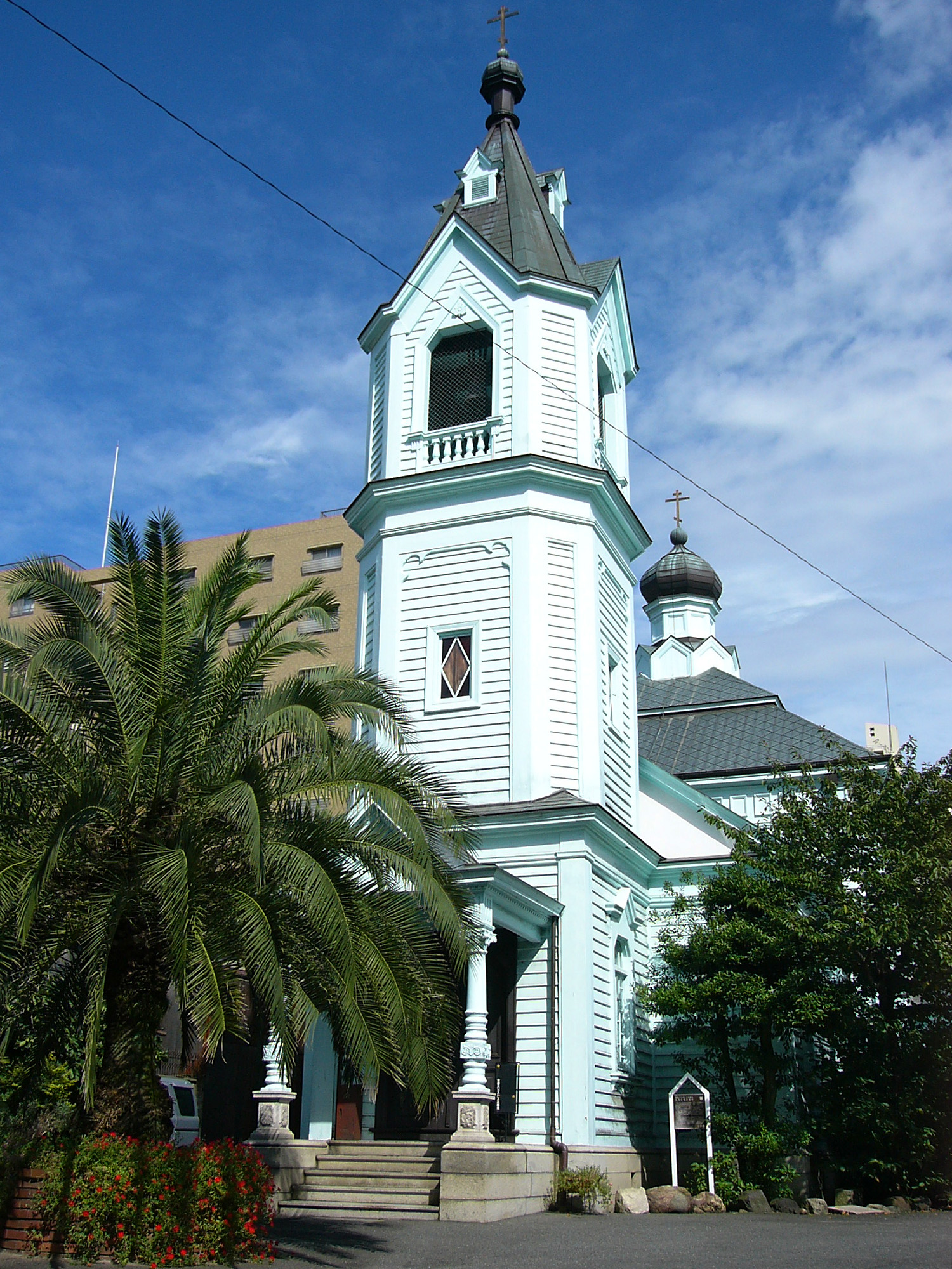 Kyoto Annunciation Cathedral in Kyoto, Kyoto prefecture, Japan